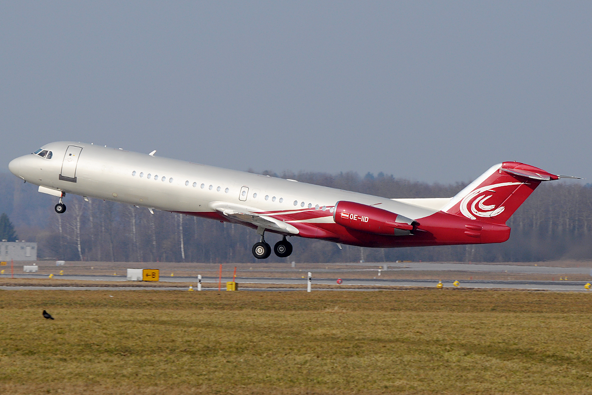 A MJet Fokker 100 takes off form Zürich-Kloten airport